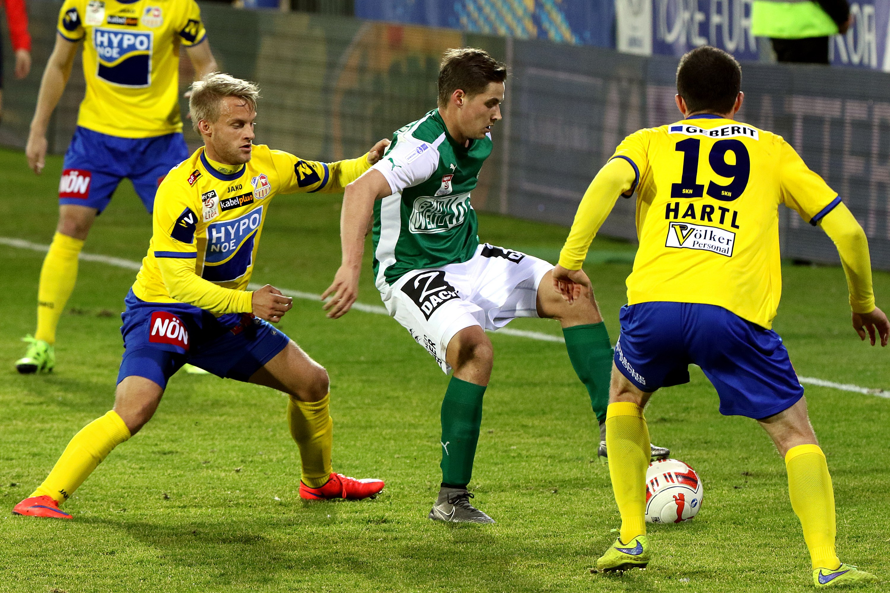 Match of the 2015–16 Austrian Cup – SV Mattersburg (green shirts) vs. SKN St. Pölten (yellow shirts) 1-2 (0-1) at 2016-02-09 in Pappelstadion, Mattersburg – The photo shows from left to right: Patrick Schagerl, Thorsten Röcher and Manuel Hartl.